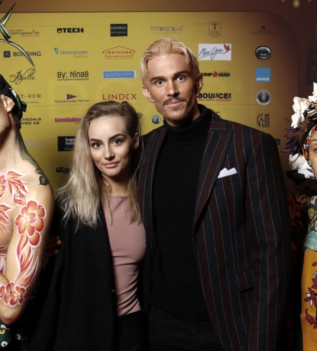 Alexander Strandell with girlfriend Charlotta Söderqvist at Hakunamata Galan 2019